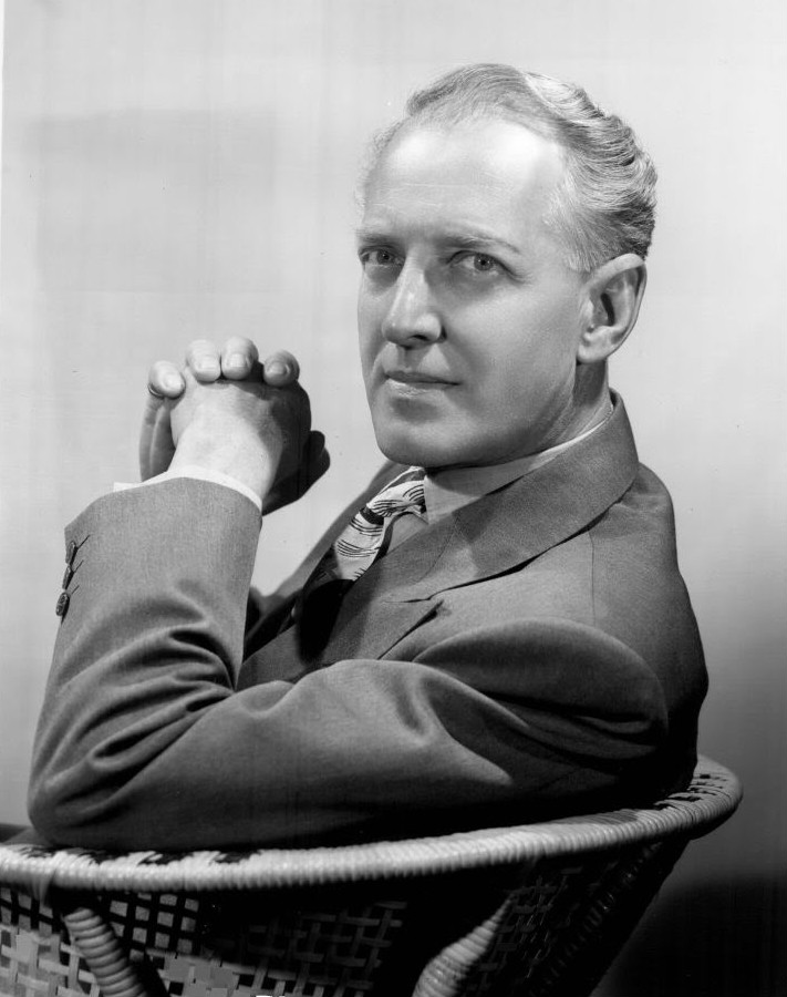 Photo of Otto Kruger issued when he became the host of Lux Video Theatre.